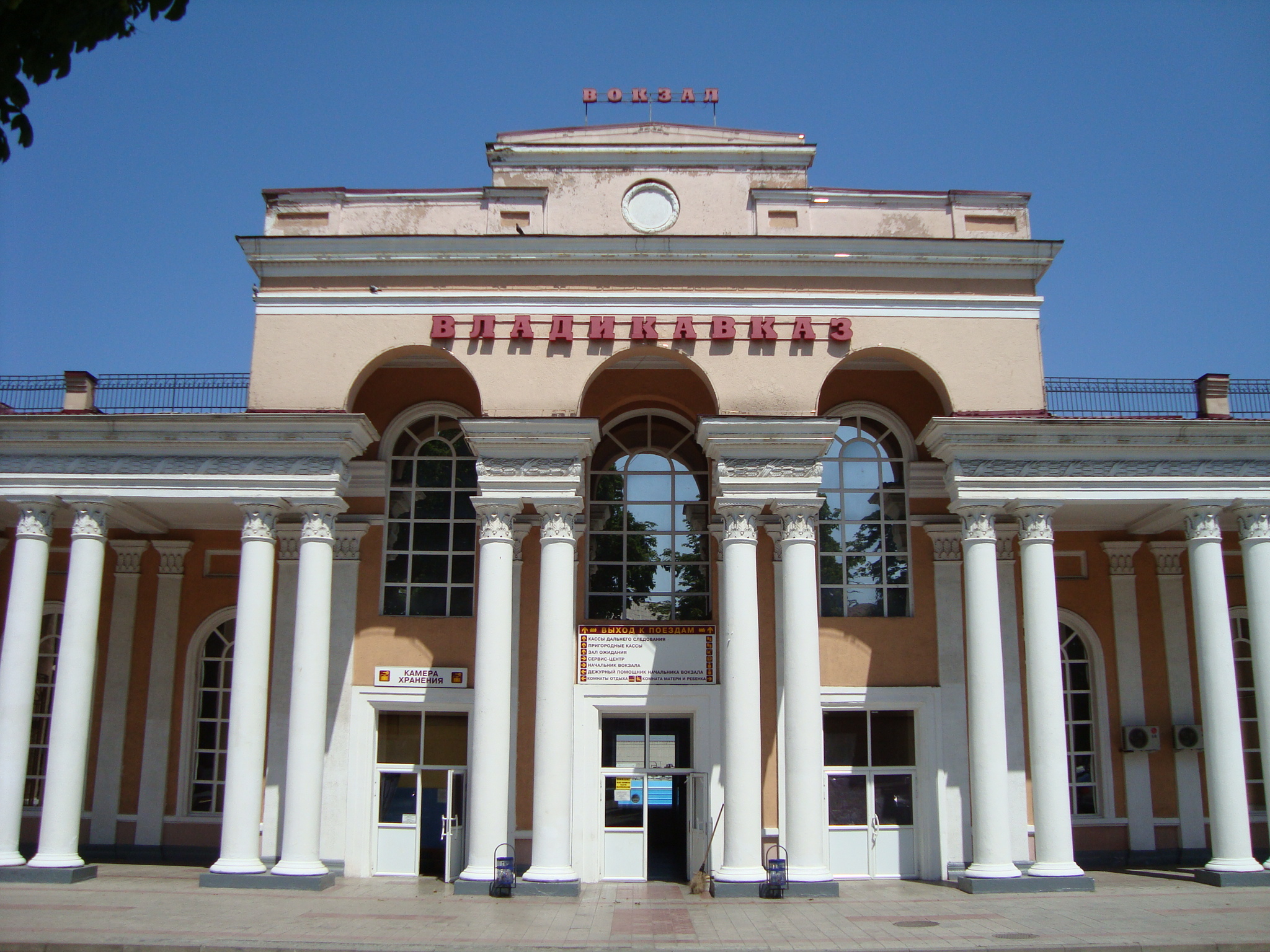 The building of the railroad station in Vladikavkaz.